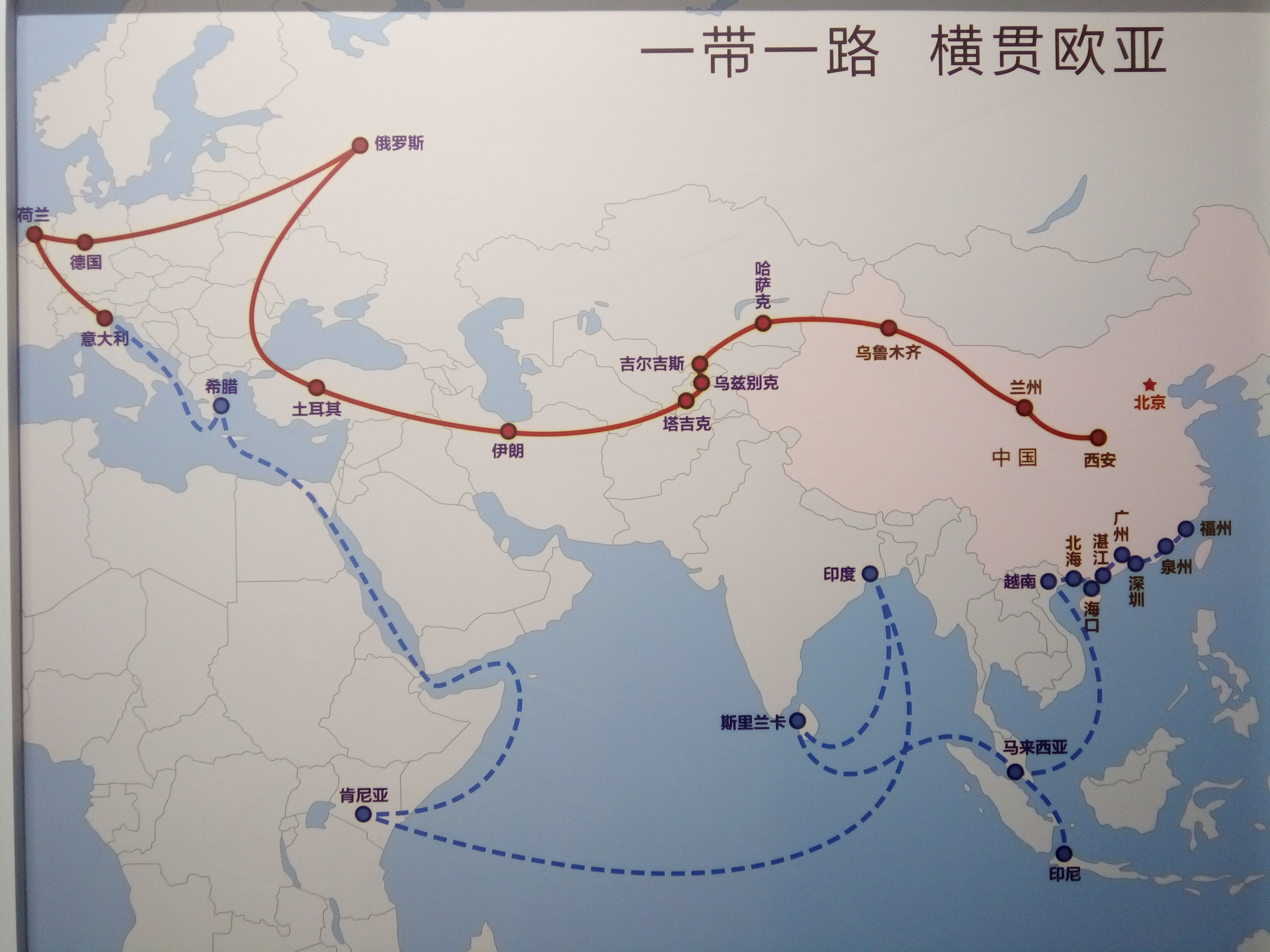 SZ 深圳城市規劃展覽館 Shenzhen City Planning Exhibition Hall in Jan 2017